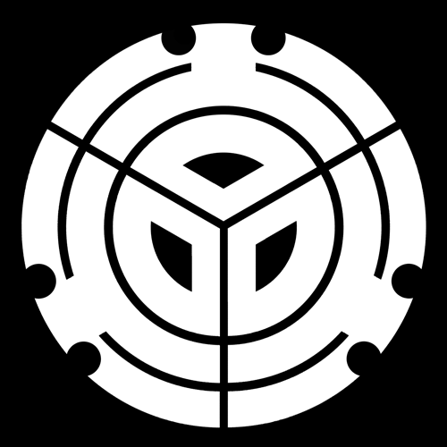 Japanese family crest "Mitsu-kichi", depicting three kanjis of "吉" (kichi, happiness) radially